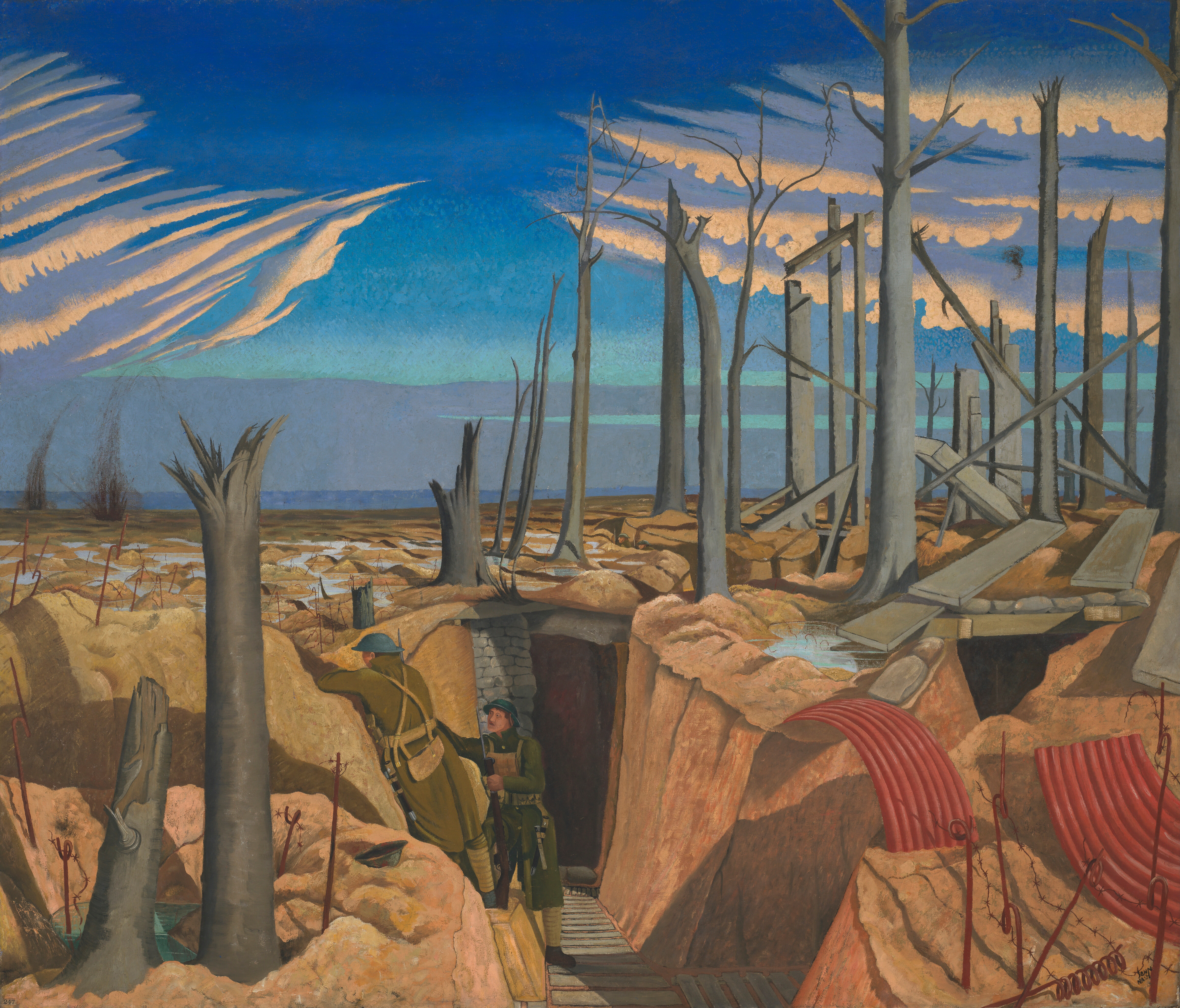 Oppy Wood, 1917. Evening image: the lower half of the composition has a view inside a trench with duckboard paths leading to a dug-out. Two infantrymen stand to the left of the dug-out entrance, one of them on the firestep looking over the parapet into No Man's Land. There is a wood of shattered trees littered with corrugated iron and planks at ground level to the right of the composition. The sky stretches above in varying shades of blue with a spectacular cloud formation framing a clear space towards the top of the composition.